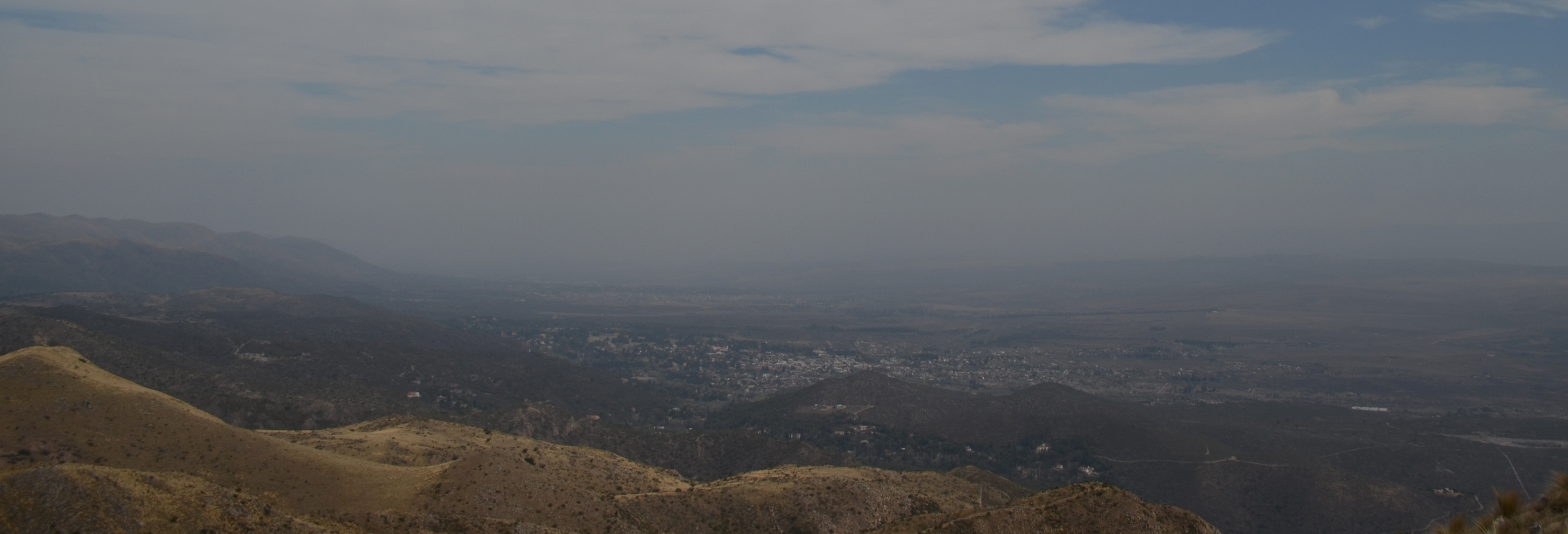 Panoramic of the Punilla Valley, in the greater Córdoba. Argentina.